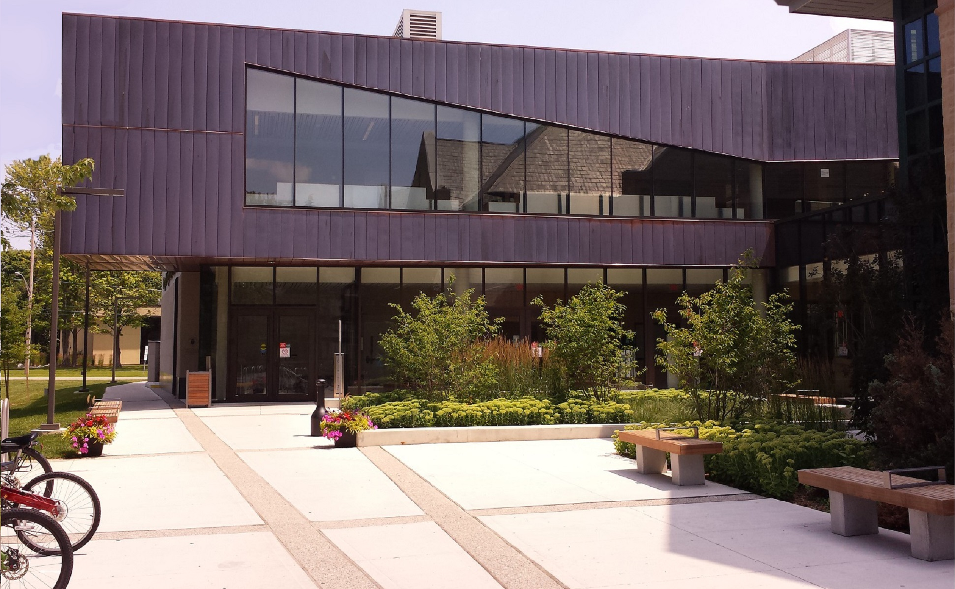 Darryl J. King Student Life Centre at King's University College (University of Western Ontario)